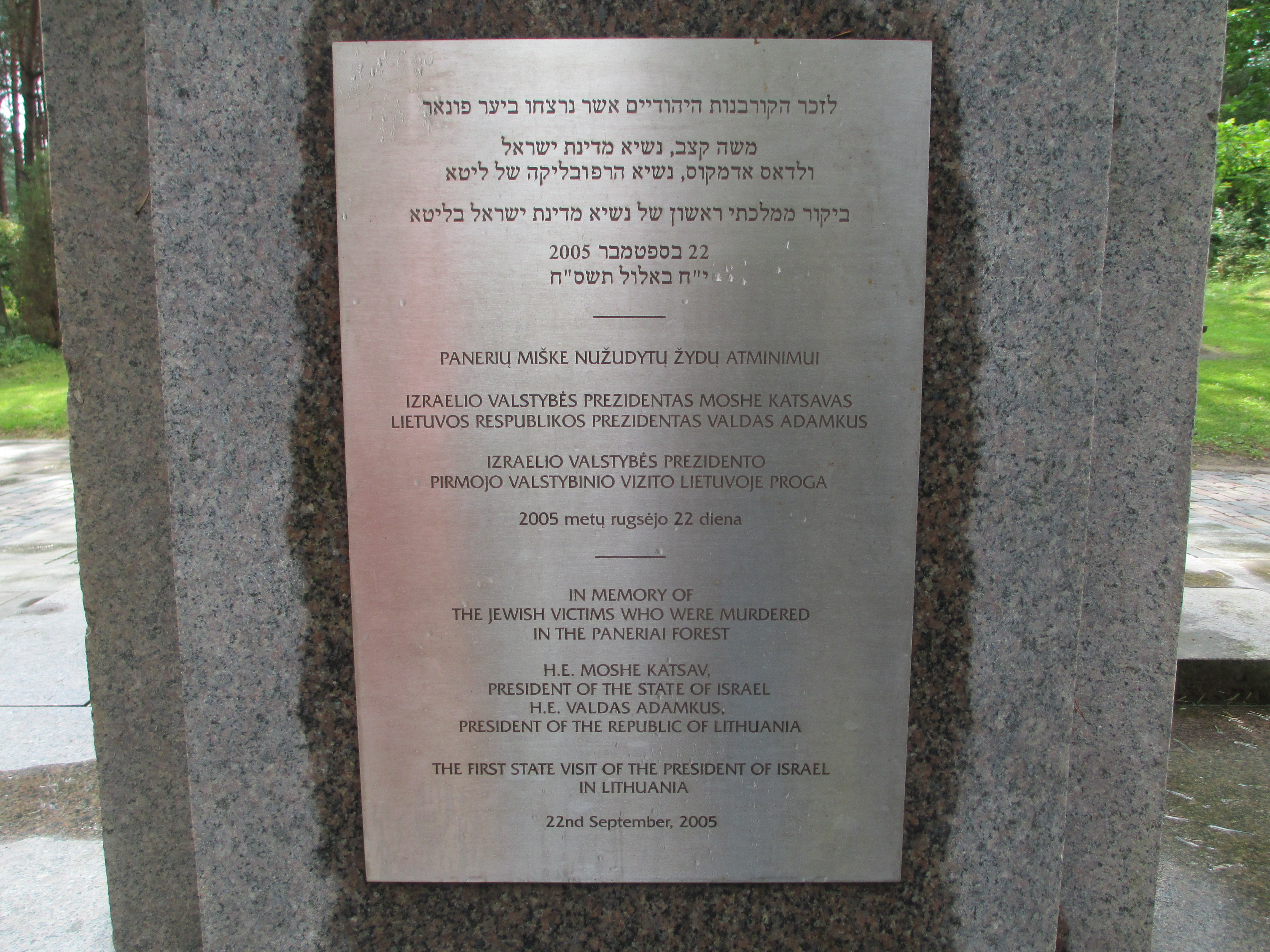 ponar forest memorial near vilnius